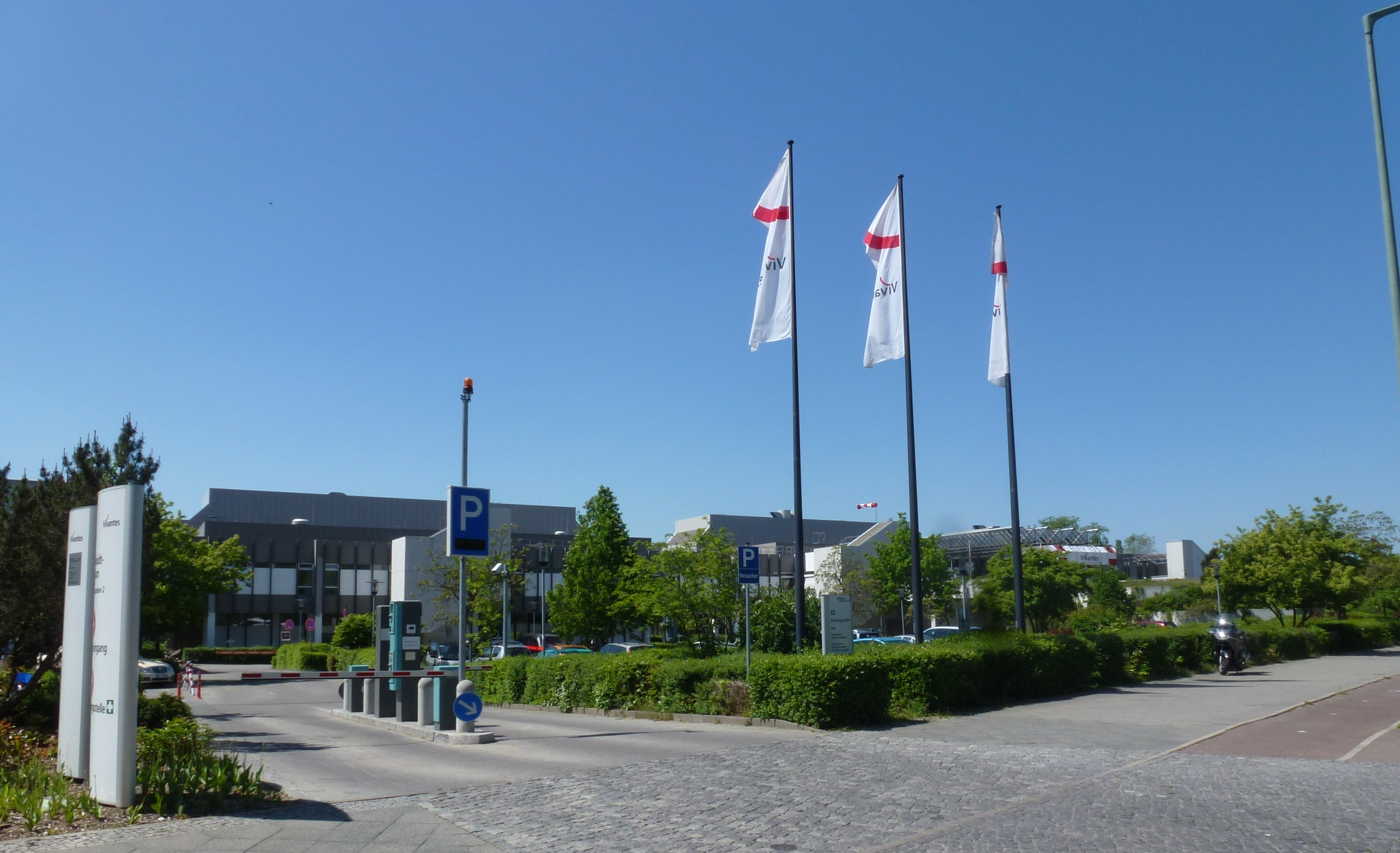 Berlin-Borsigwalde Am Nordgraben Humboldt-Klinikum